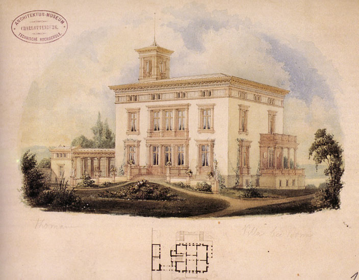 Architectural drawing of Villa Prieger, Bonn, Germany